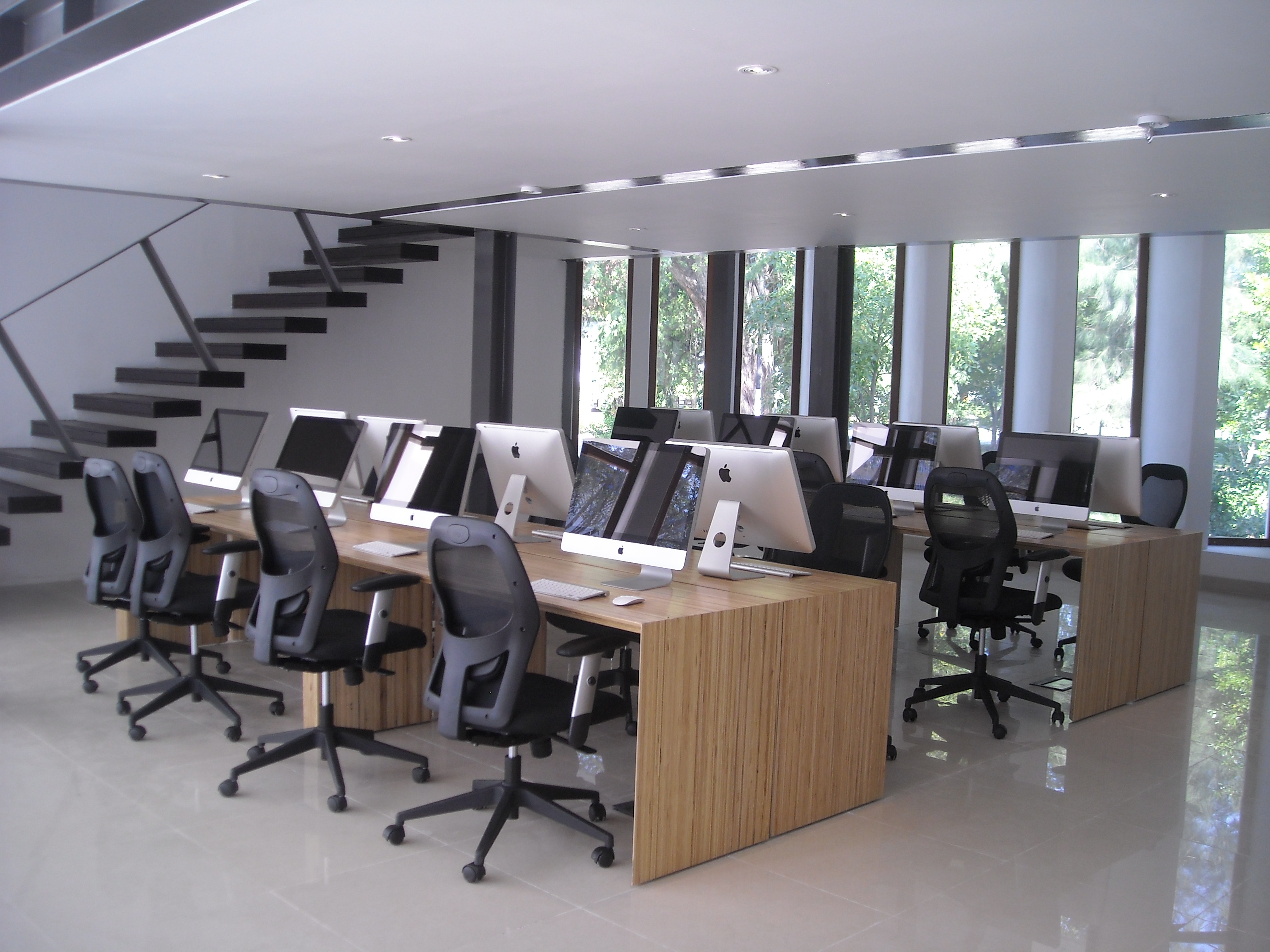 Aspeto da Sala de Leitura do AMRT